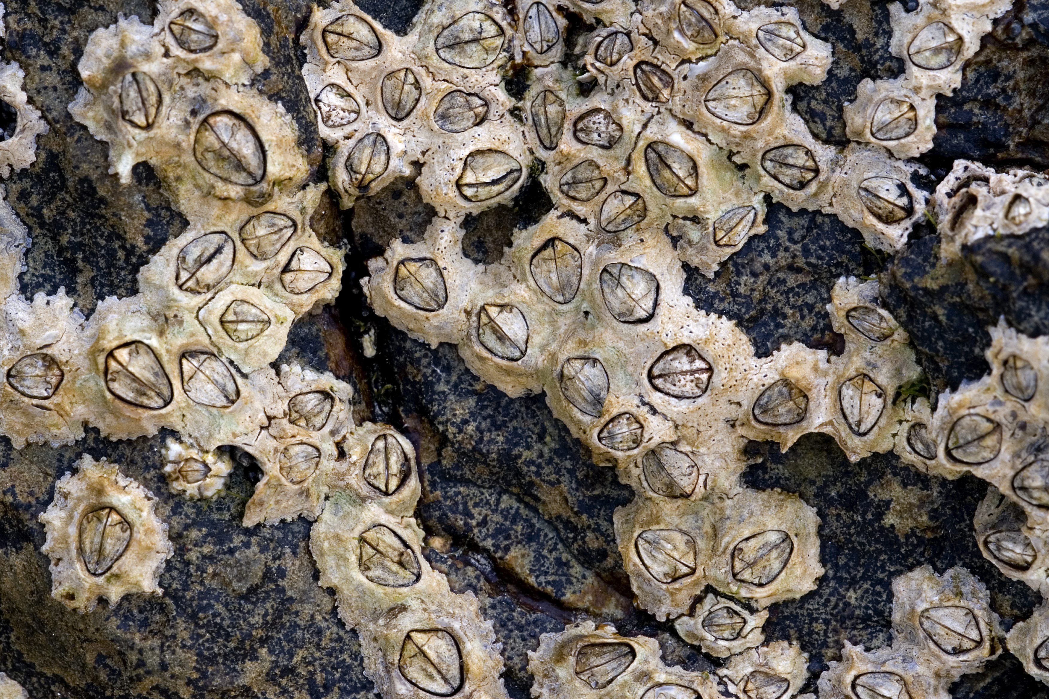 photographed near the upper shoreline, Lundy Island, UK. Max shell length about 10mm.